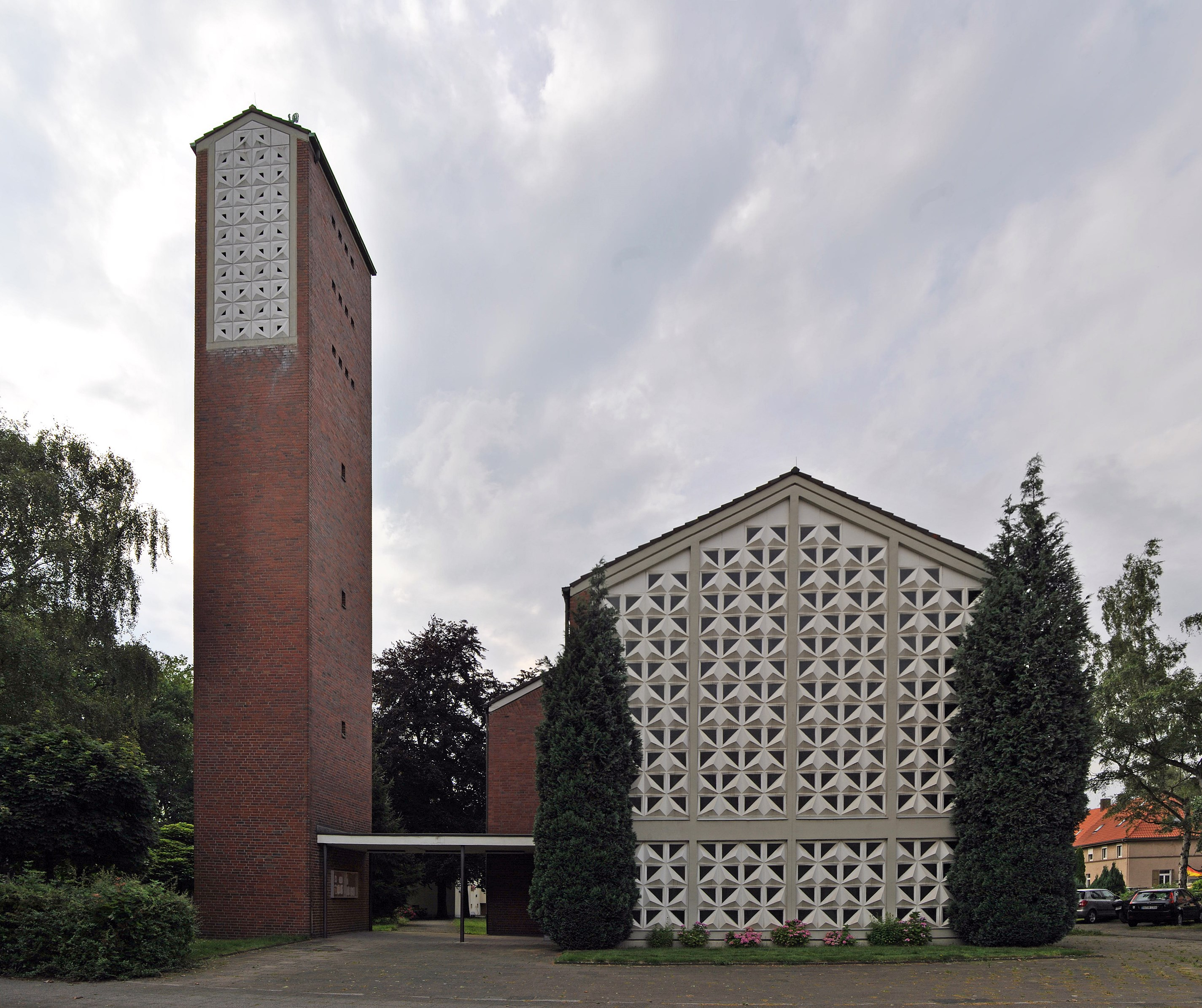 Duisburg (North Rhine-Westphalia, Germany) – borough Süd, district Wedau – Catholic Saint Joseph Church – panoramic view This photograph was taken with a Nikon D3000